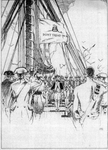 Captain Samuel Nicholas presenting Marines at the hoisting of the Rattlesnake flag (Gadsden flag), ink drawing by Arman Manookian, Honolulu Academy of Arts